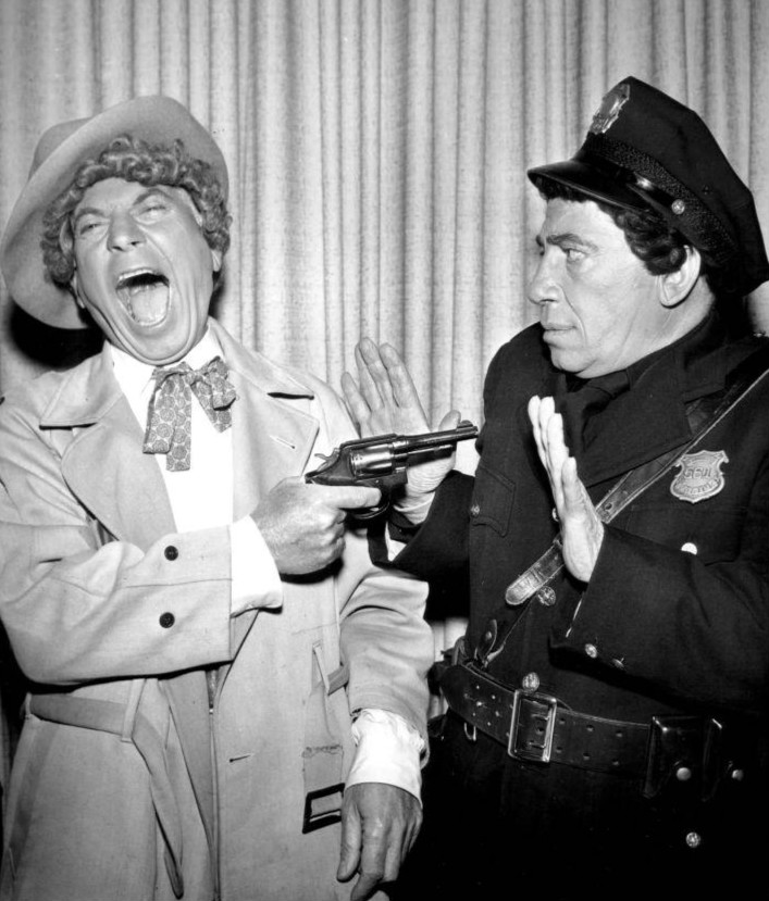 Photo of Harpo and Chico Marx from their appearance on the television program General Electric Theater. The episode is "The Incredible Jewelry Robbery" and the brothers performed the comedy in pantomime. Chico's uniform is an attempt to fool the police.